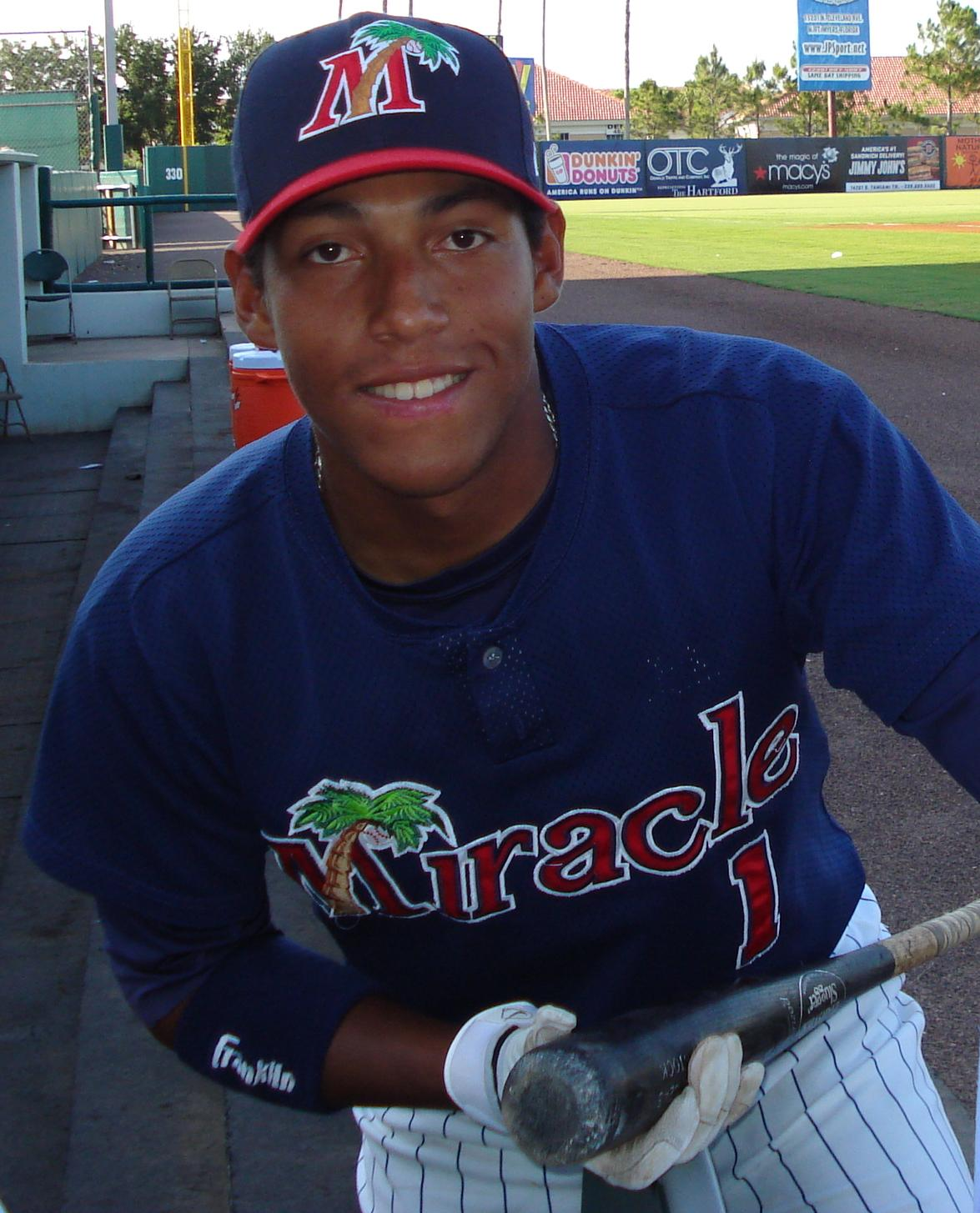 Description Fort Myers Miracle Date5 24, 08SourceI created this work entirely by myself.AuthorJohnny Spasm (talk) 01:47, 15 July 2008 . . Johnny Spasm . . 1,175×1,455 (205 KB) Fort Myers Miracle